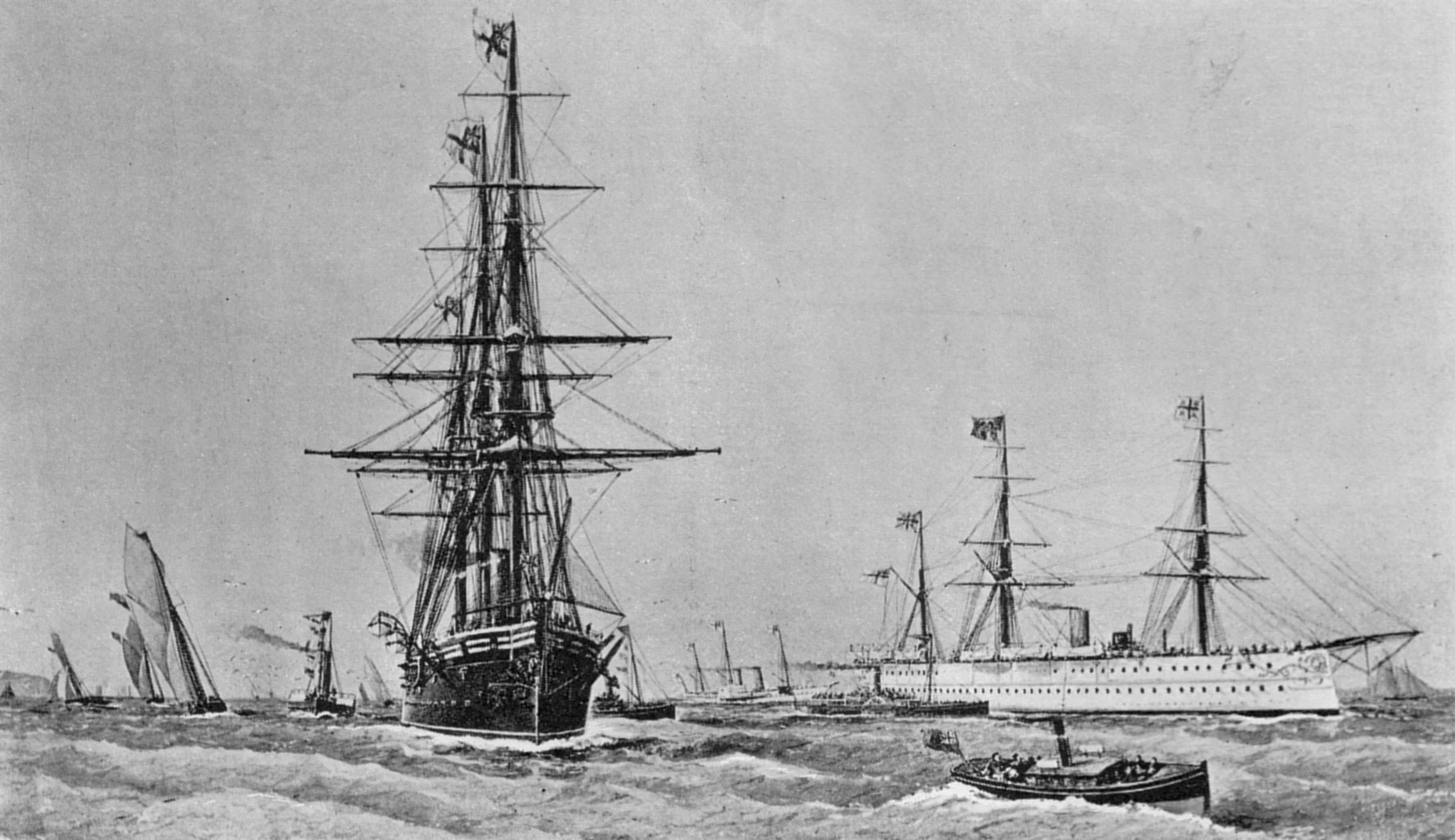 HMS Raleigh (1873) and Serapis (1866). Although not stated in the text, pages around the picture describe the visit of the Prince of wales to Bombay in 1875. The prince travelled in Serapis, accompanied by Raleigh and Osborn. Captain of Raleigh was George Tryon.